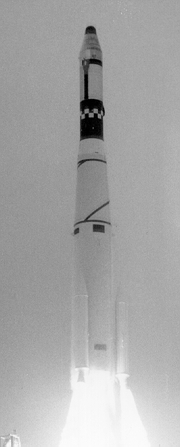 Launch of the Thor SLV-2A Agena D LV with spy-satellite Corona 84